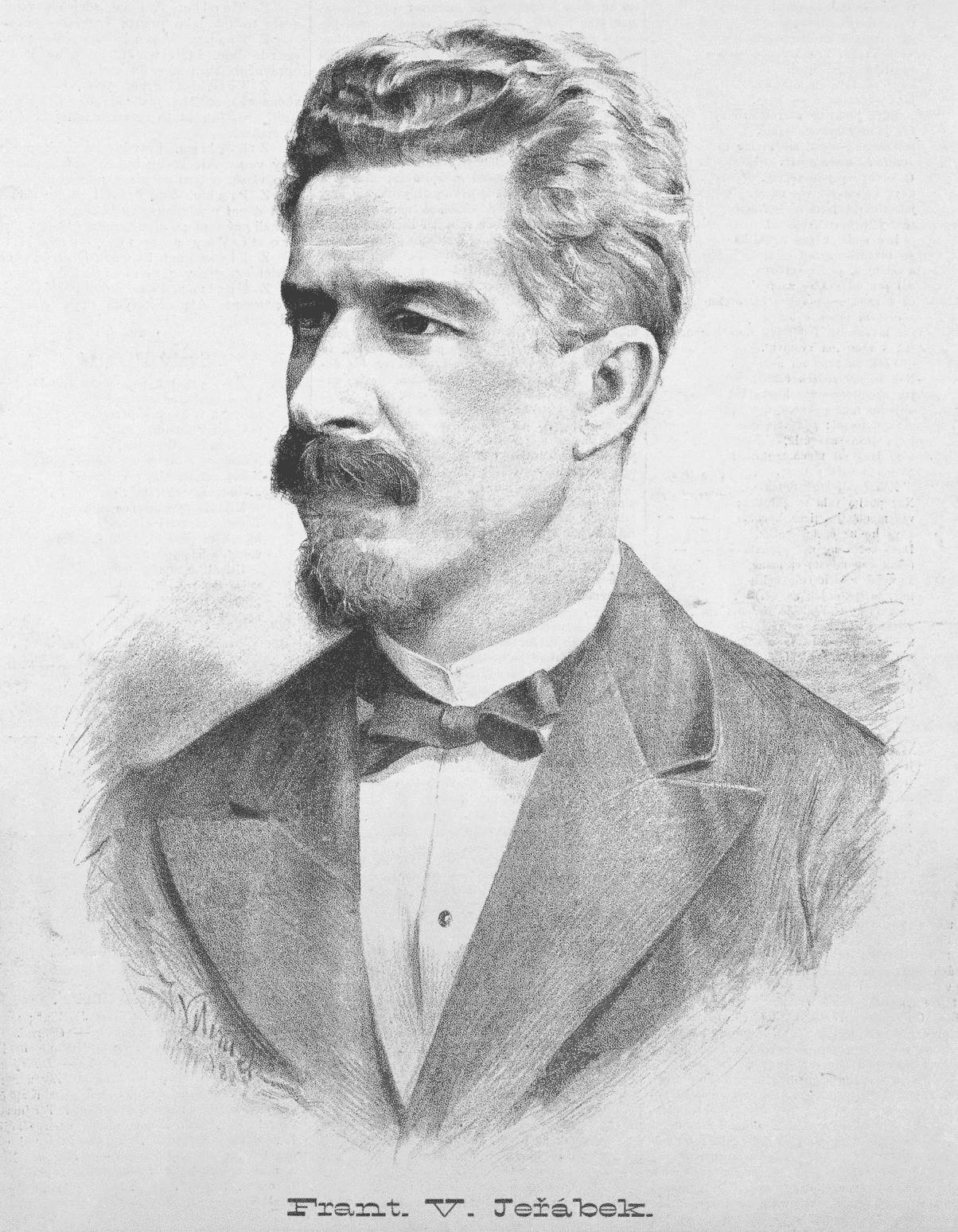 Portrait of František Věnceslav Jeřábek, Czech writer and playwright